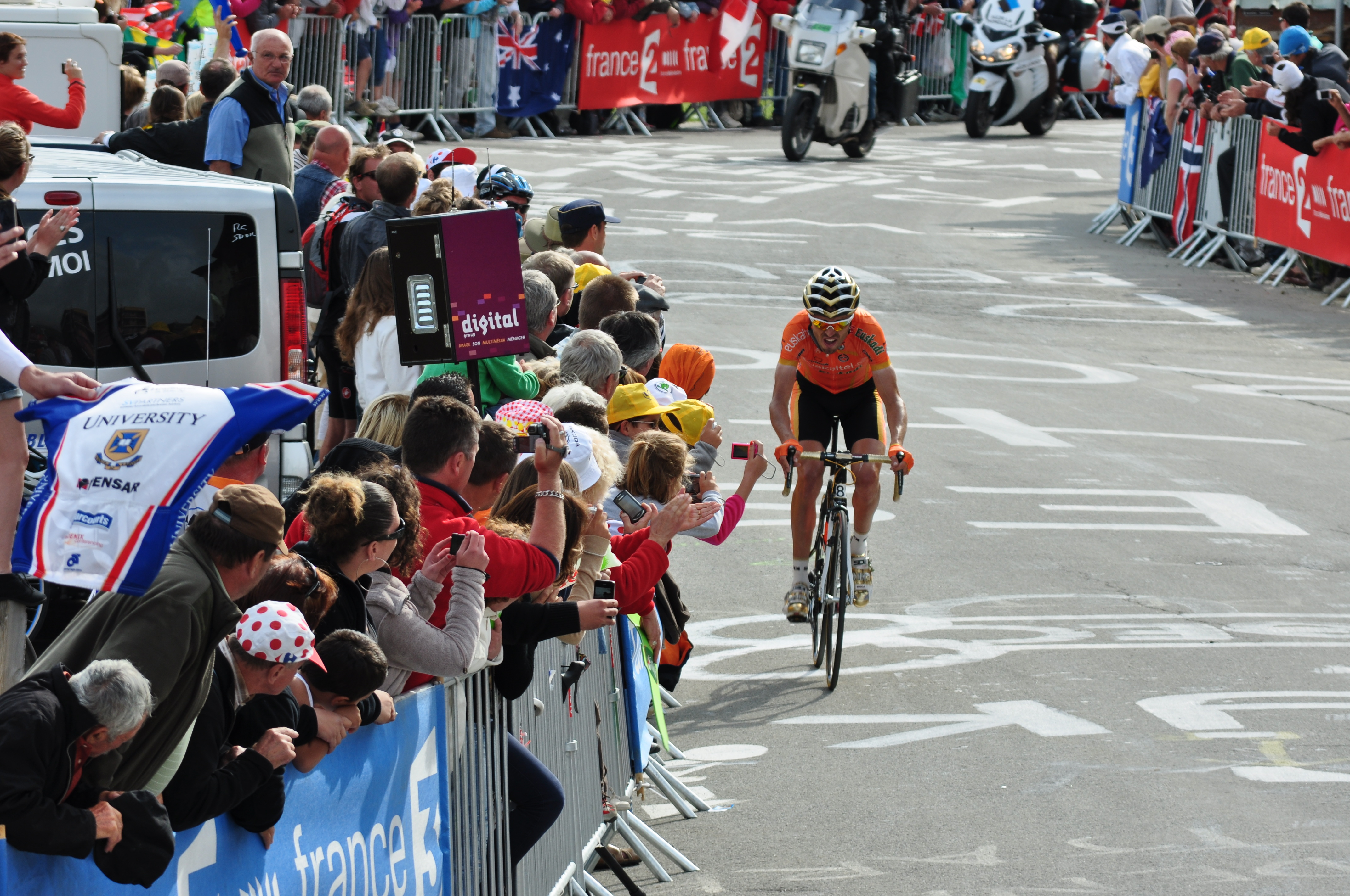 Samuel Sanchez rides to the finish of stage 19 of the 2011 Tour de France, on Alpe d'Huez. He took second place on the day.